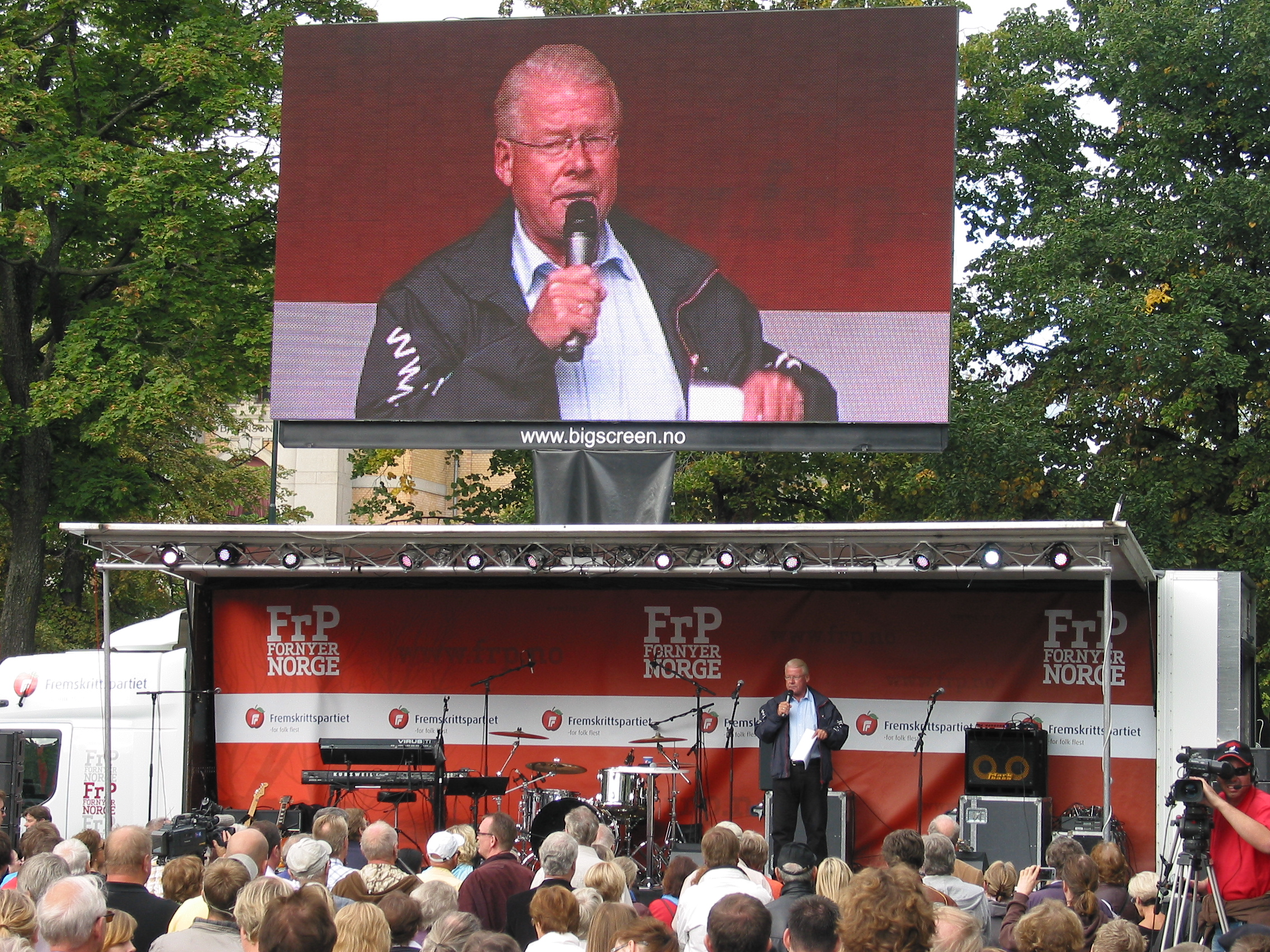 Car I. Hagen campaigning in Spikersuppa, Oslo ahead of the 2009 Norwegian election